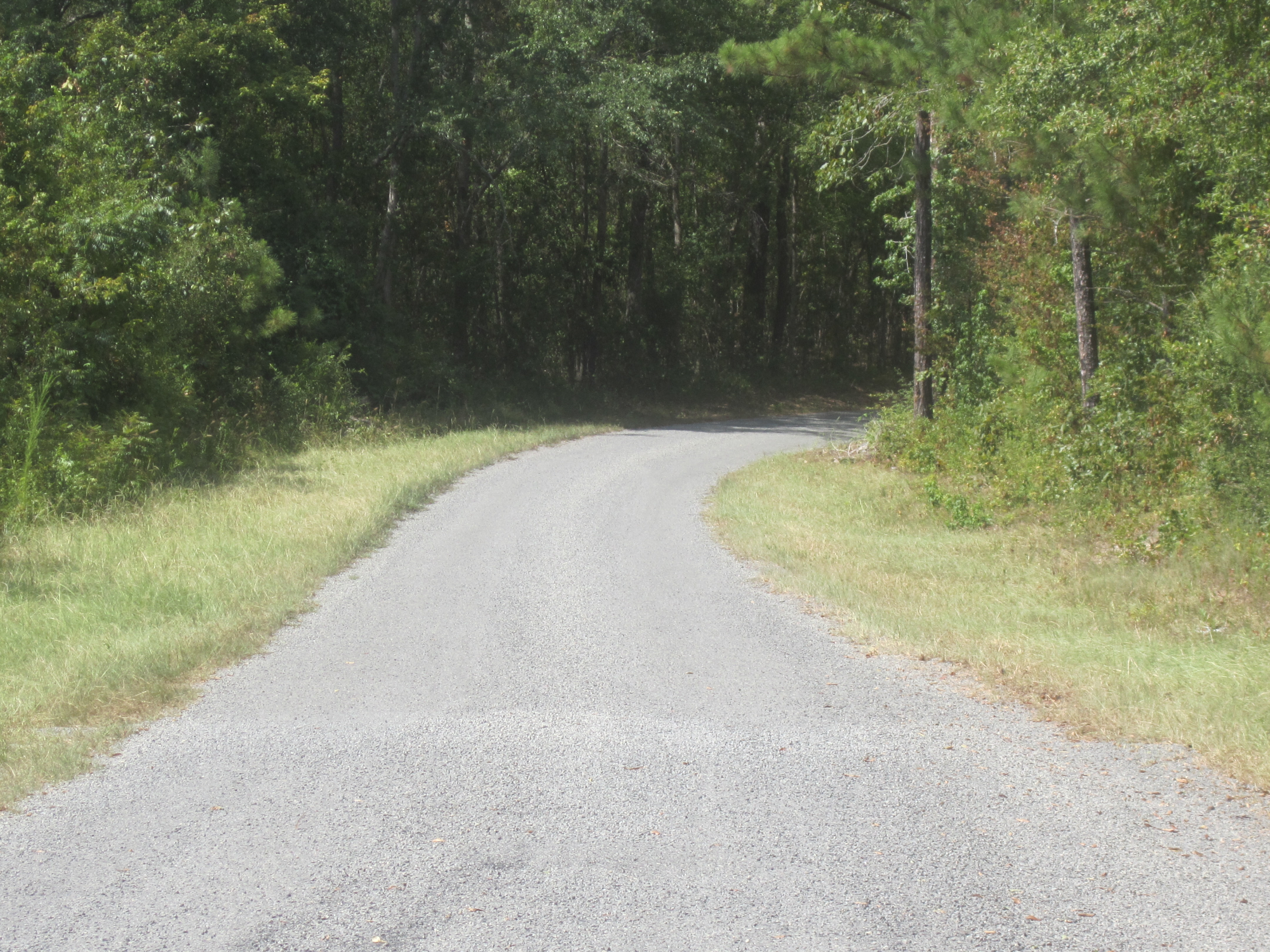 I took photo of rural Nelson Creek Road south of Castor in Bienville Parish, LA, using a Canon camera.